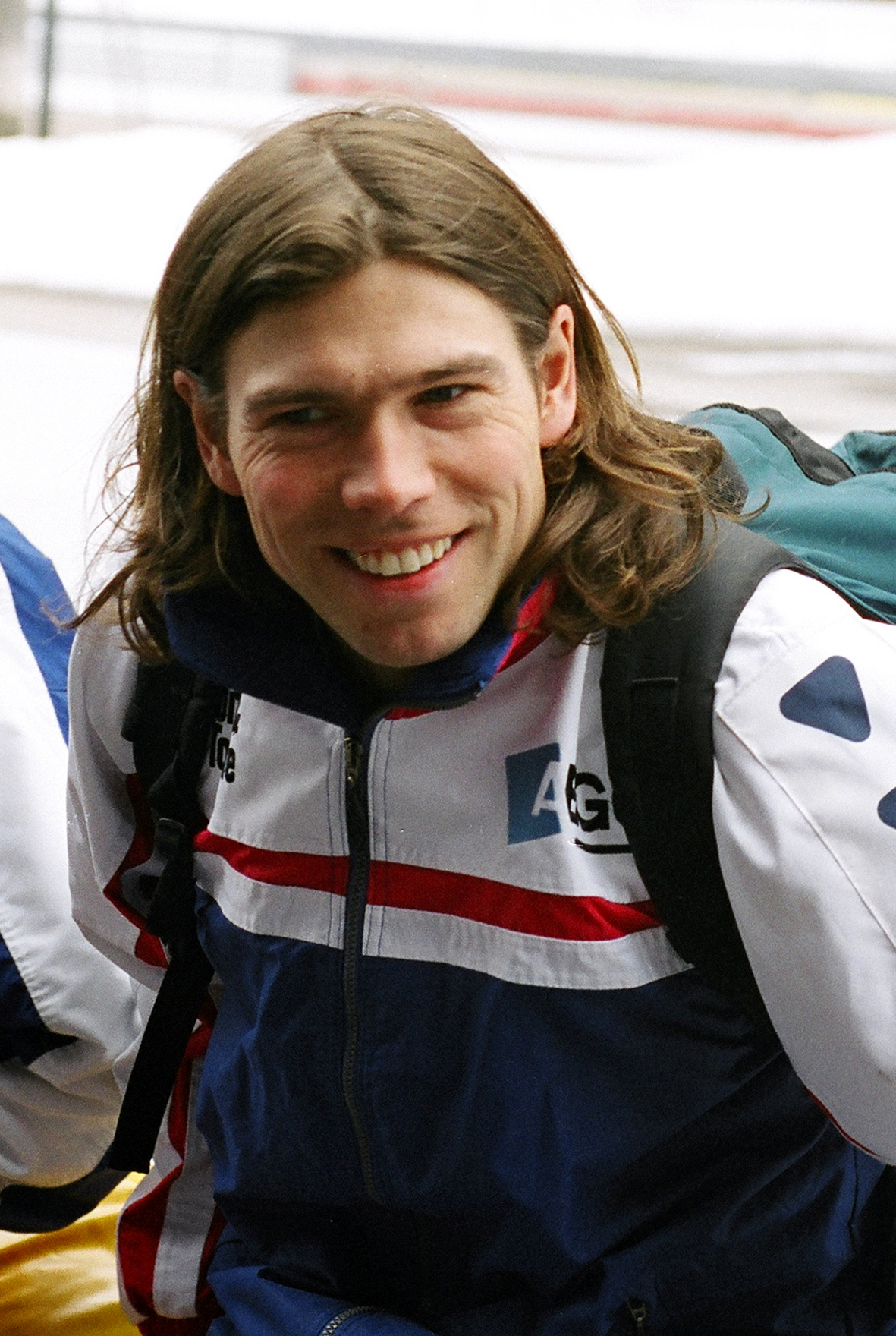 Gerard van Velde is a former speedskater from The Netherlands